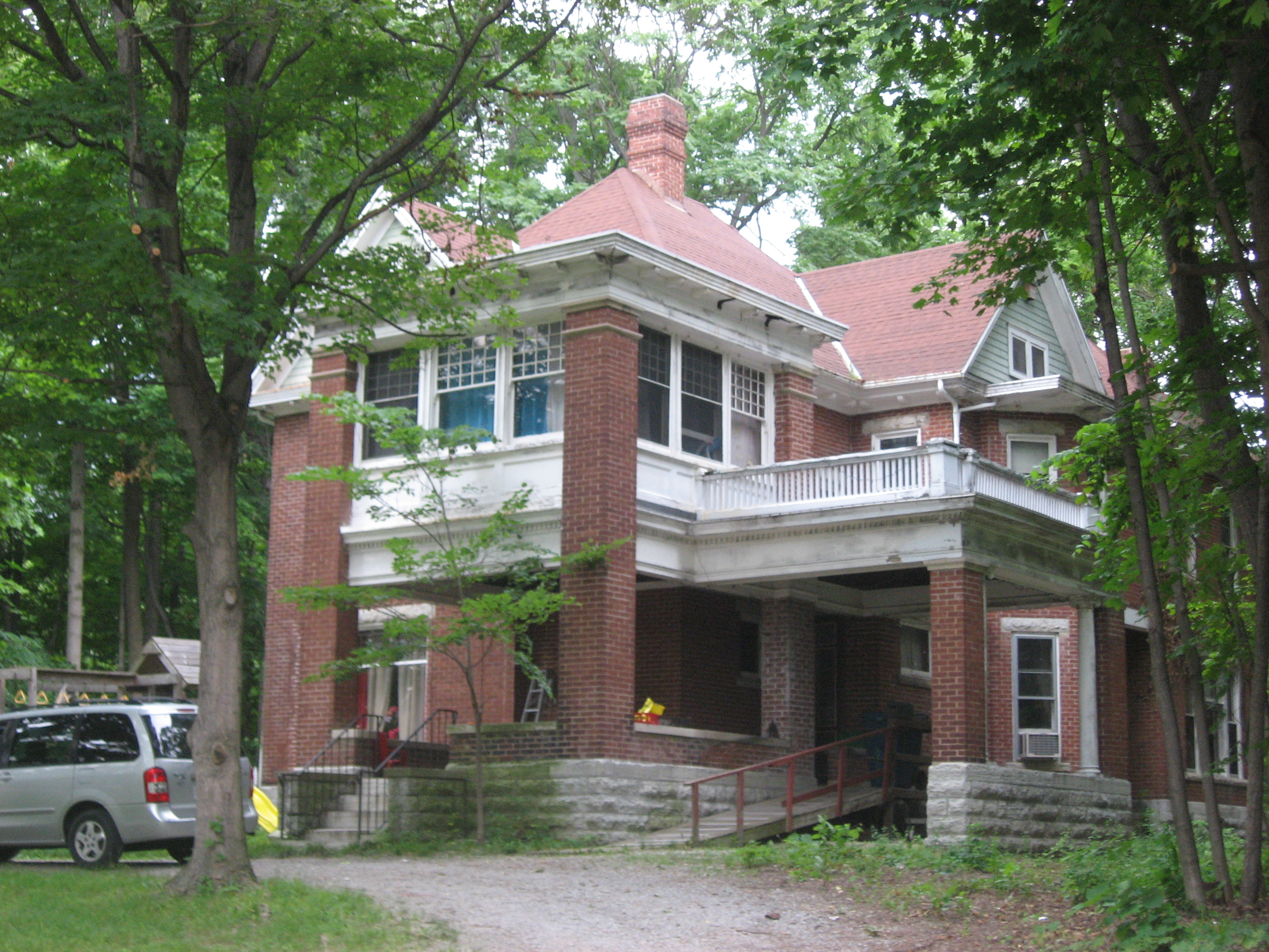 Front of the David Worth Dennis House, located at 610 W. Main Street in Richmond, Indiana, United States. Built in 1895, it is listed on the National Register of Historic Places.